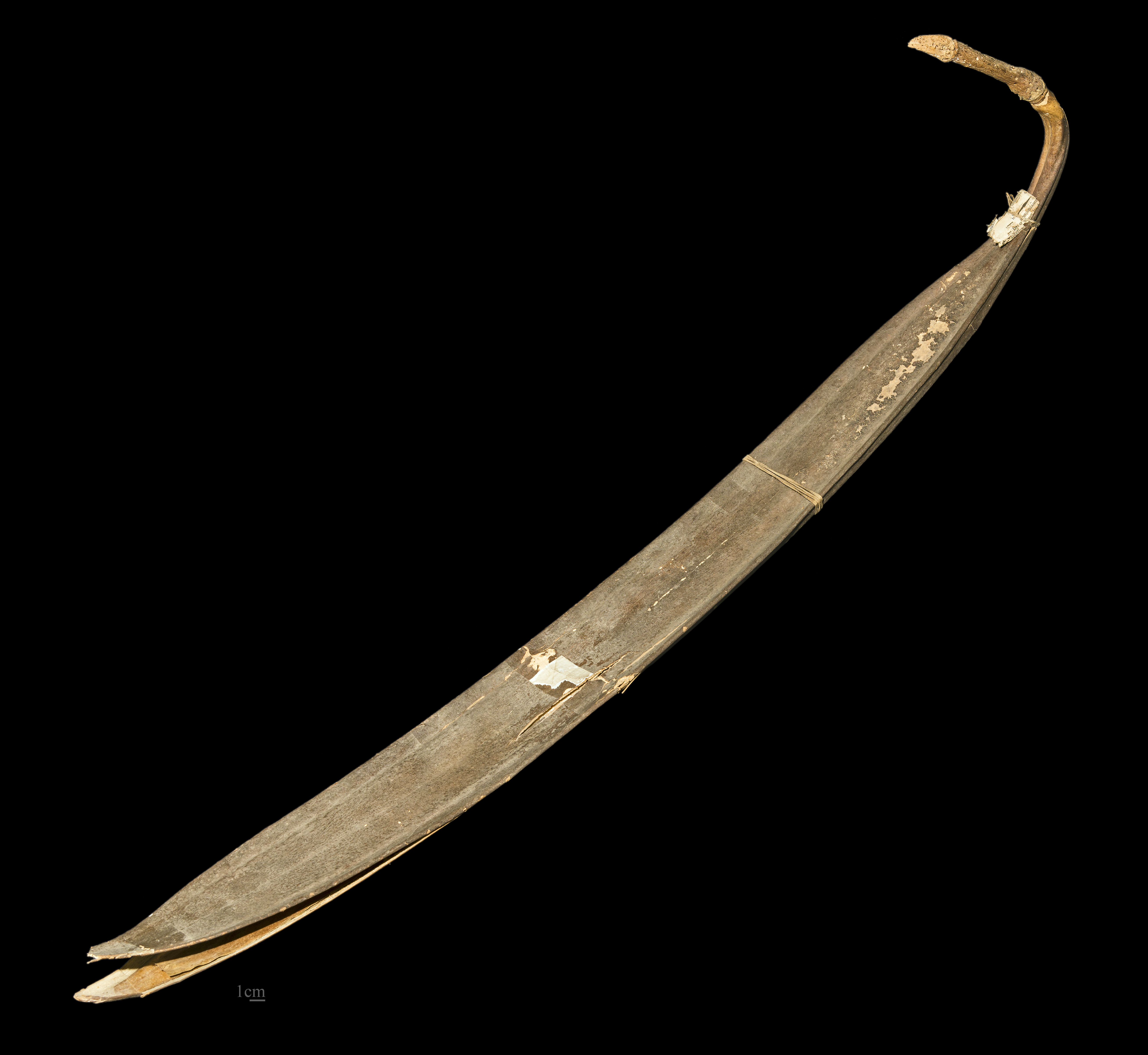 Midnight horror - Ripe fruit - Old collection of de Benjamin Balansa (1825-1891) Size : 85x10x2.4 cm